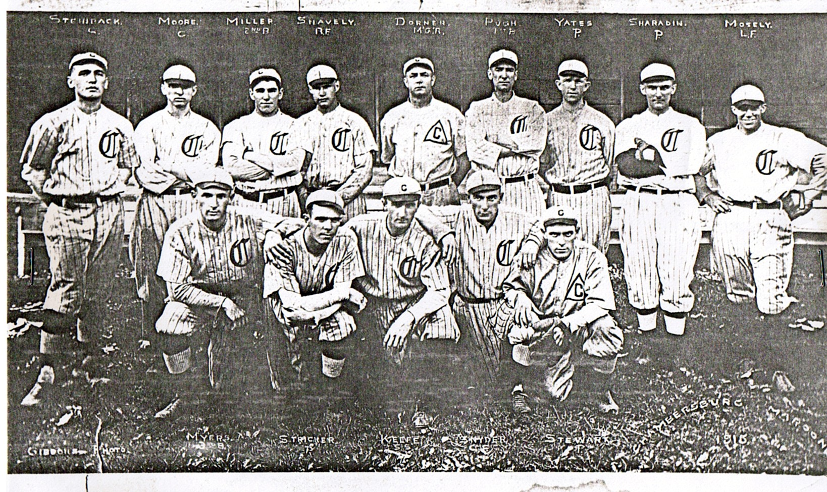 Team Photo of the 1915 Chambersburg Maroons